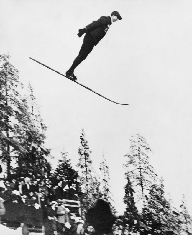 Ski jumper Svein Welhaven (1890–1955)[1] in Holmenkollbakken, Oslo, 1910.[2] He represented the local skiing club IL Trym[3] and was the best junior jumper of the Holmenkollrennene in 1909 and 1910.[2] He was the son of architect Hjalmar Welhaven and emigrated to the US in 1912 to become a skiing teacher.